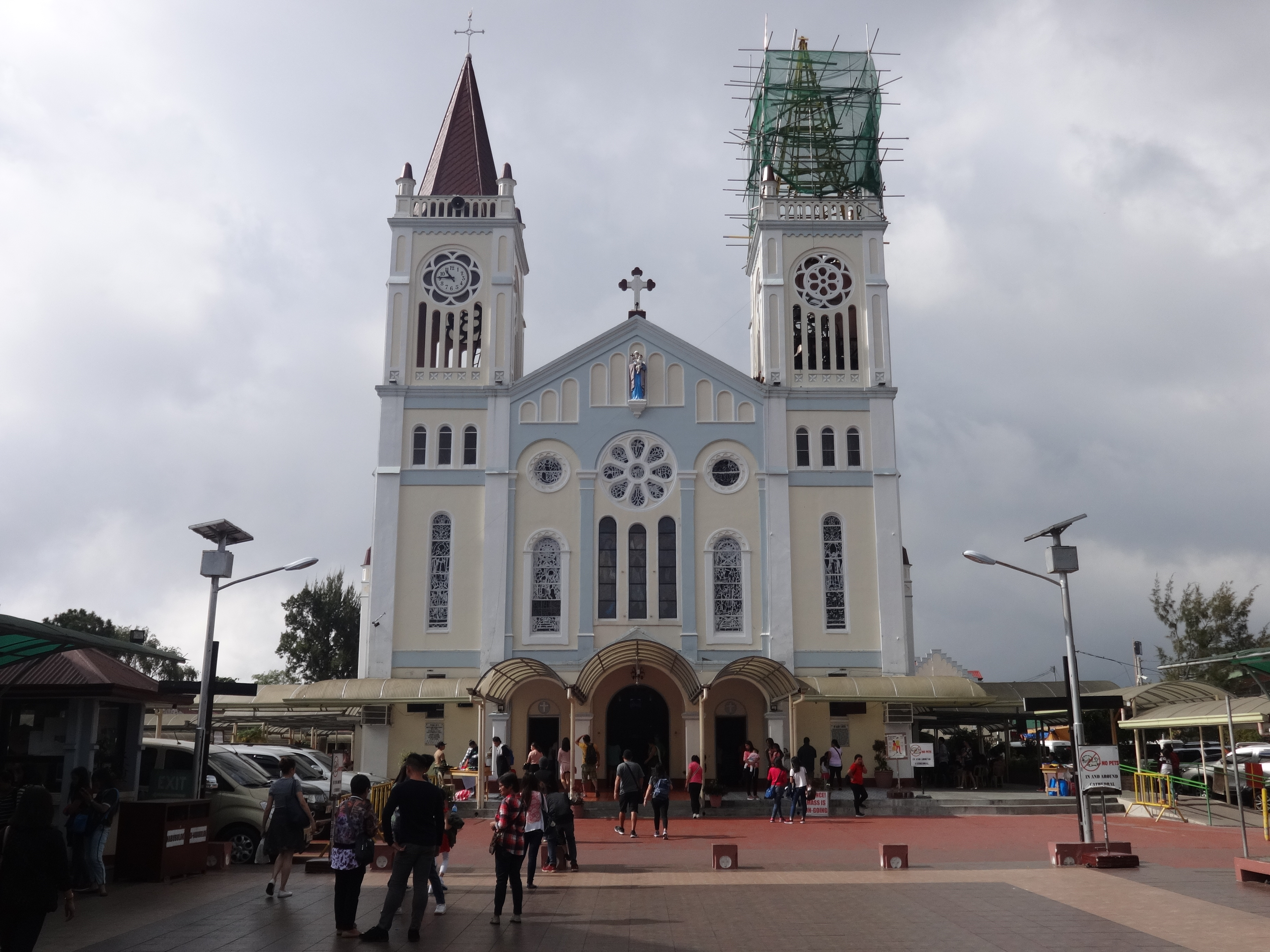 Baguio Cathedral in Baguio City, Benguet